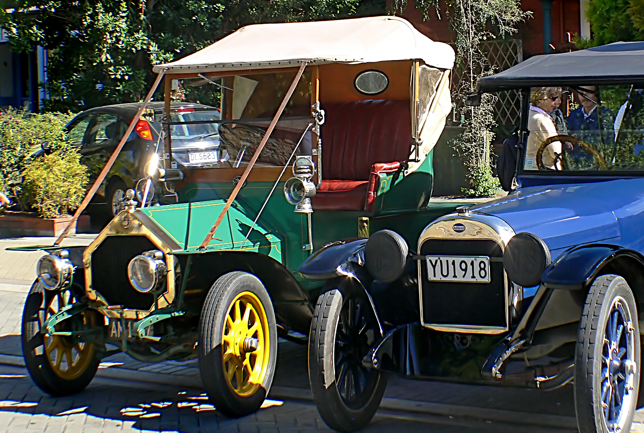 1907 Enfield 15 (and 1918 Oakland) Christchurch New Zealand